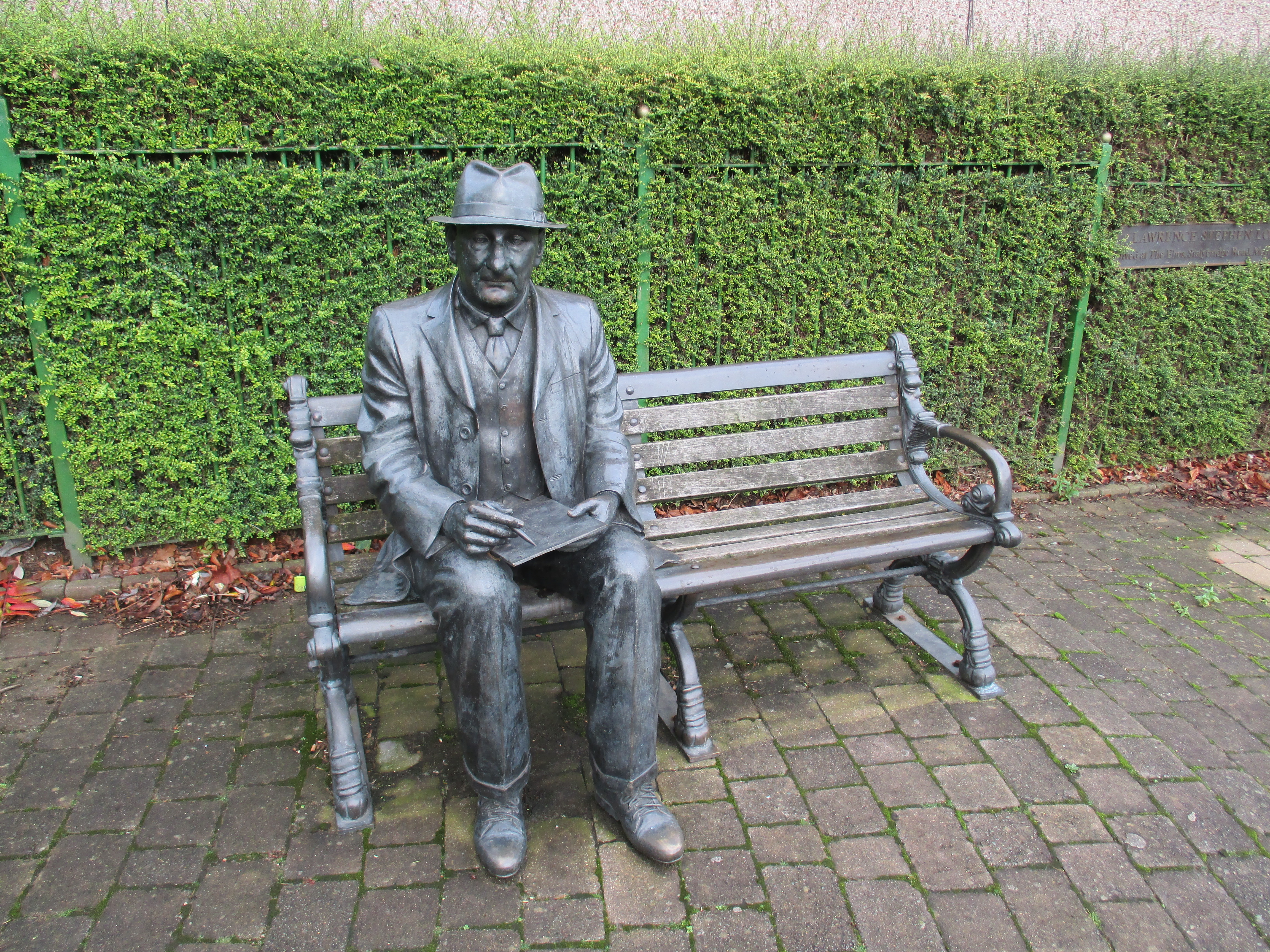 L. S. Lowry memorial, Mottram, Greater Manchester.